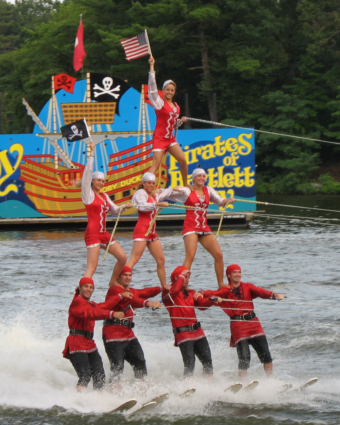 Water skiers at Tommy Bartlett's Thrill Show in July 28, 2007